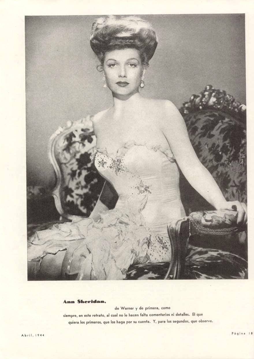 Publicity photo of Ann Sheridan for Argentinean Magazine. (Printed in USA)